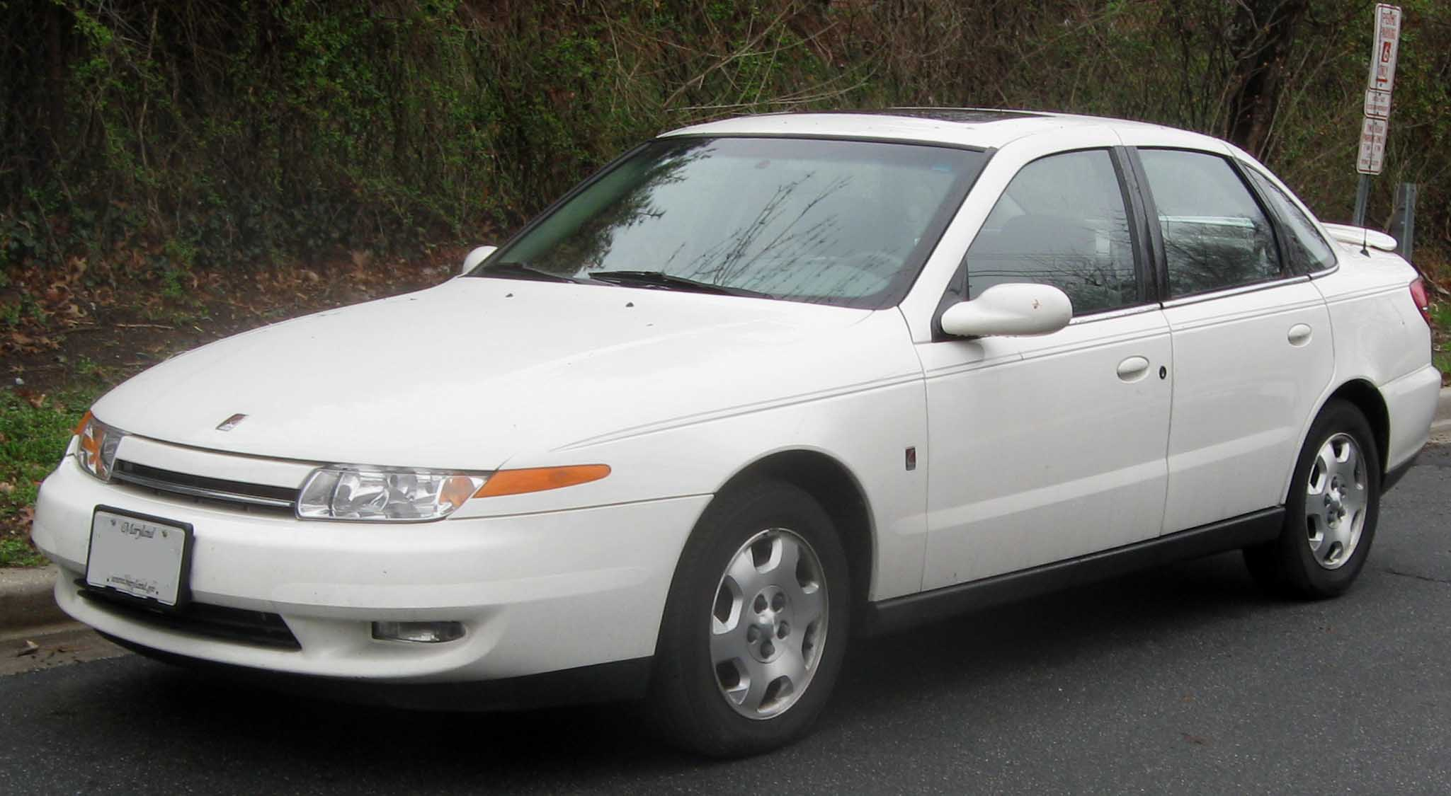 2000-2002 Saturn L-Series photographed in College Park, Maryland, USA.